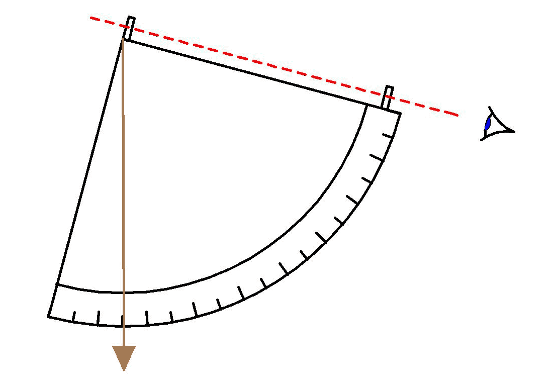 Quadrant - instrument for navigation and astronomy